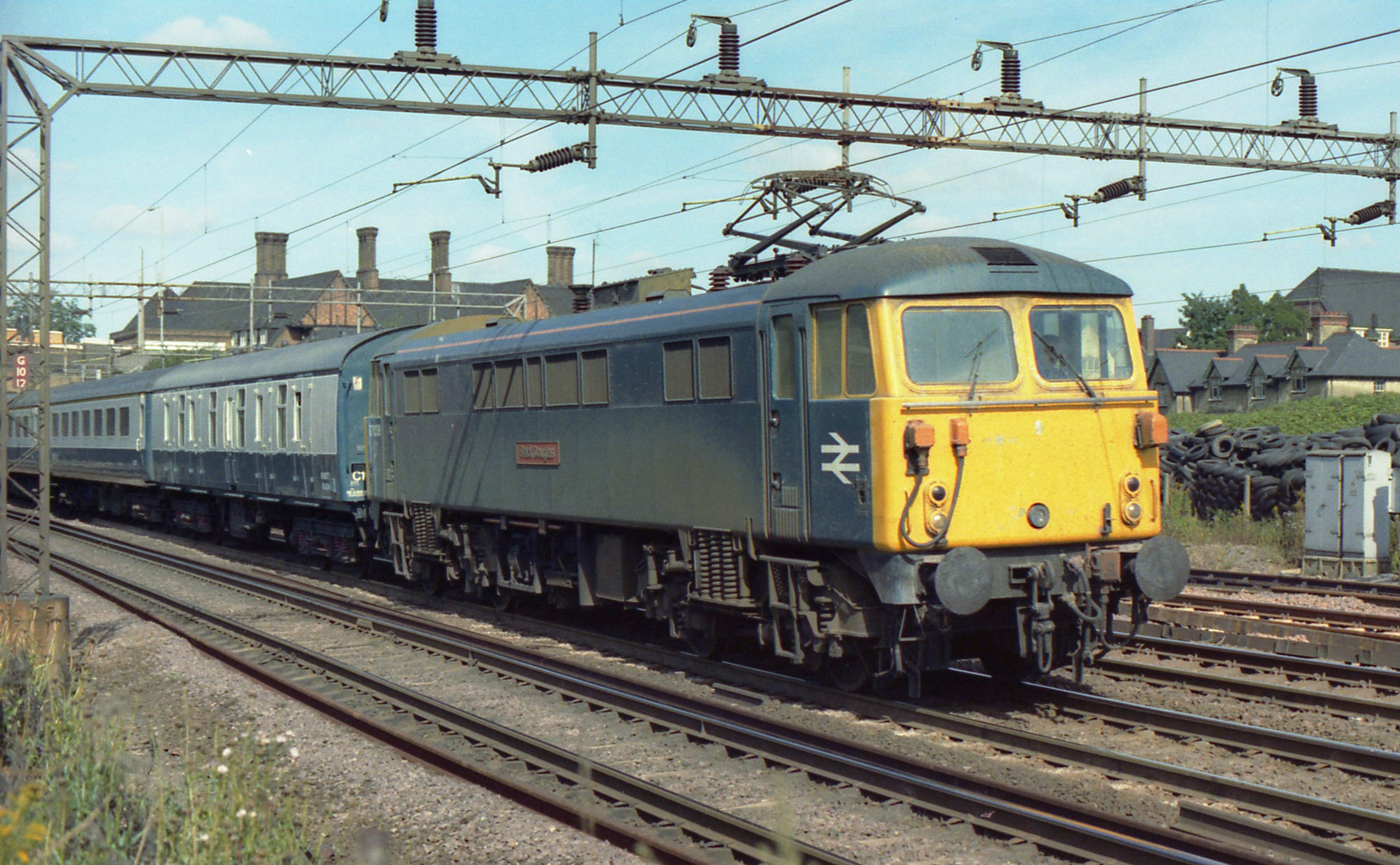 Electric locomotive class 87 No. 87 030 "Black Douglas" on an up express for London Euston passing Kenton on 15/9/1979. Camera: Olympus OM1 35mm SLR. Film: Fuji.